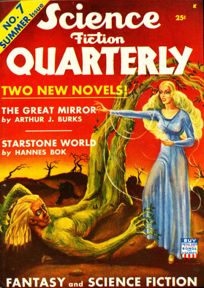 Cover of Science Fiction Quarterly, Summer 1942